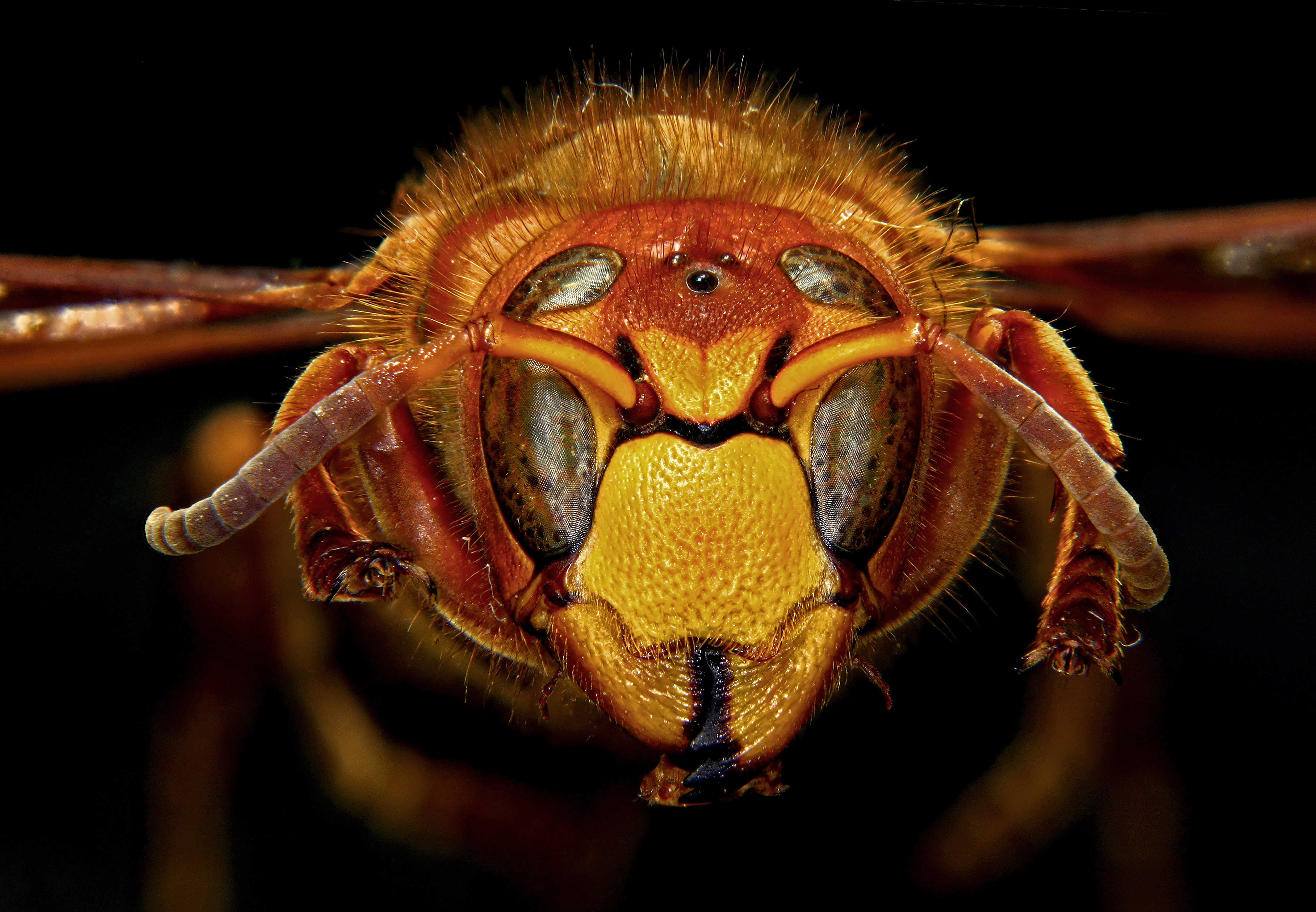 European hornet. Studio shot. Animal originating from a meadow at Weingarten near Karlsruhe, Germany (geocoding vide infra).